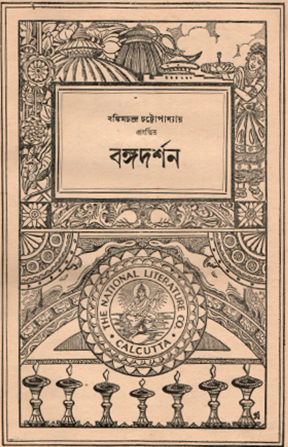 photo of cover page of a Bengali magazine 'Bangadarshana' published in 1881 AD from West Bengal, India